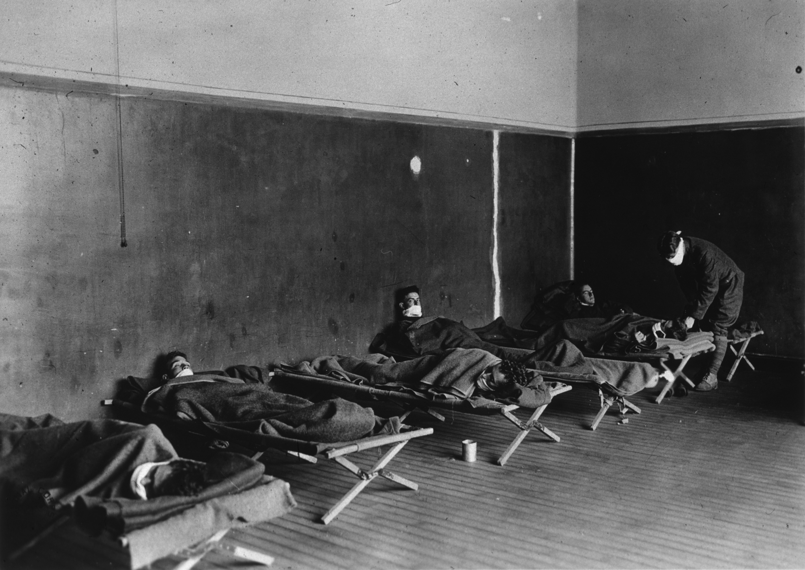 Original caption: “U.S. Army Field Hospital No. 29, Hollerich, Luxembourg Interior view- Influenza ward. ”